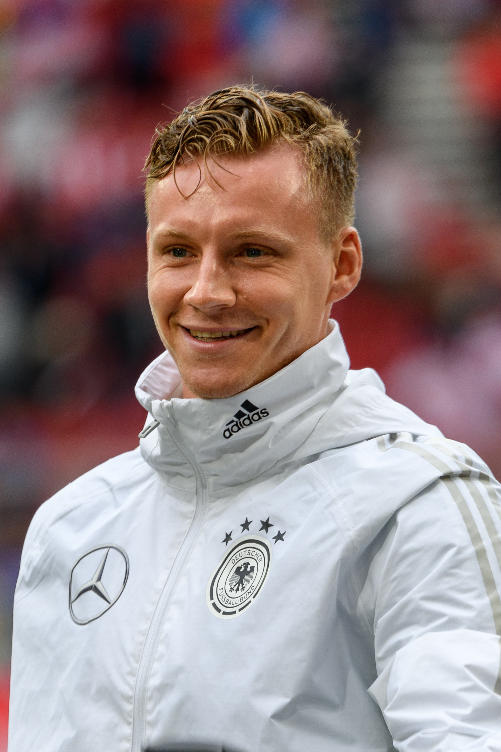 FIFA Friendly Match Austria vs. Germany 2018/06/02 in Klagenfurt/Woerthersee. Picture shows Bernd Leno (GER).